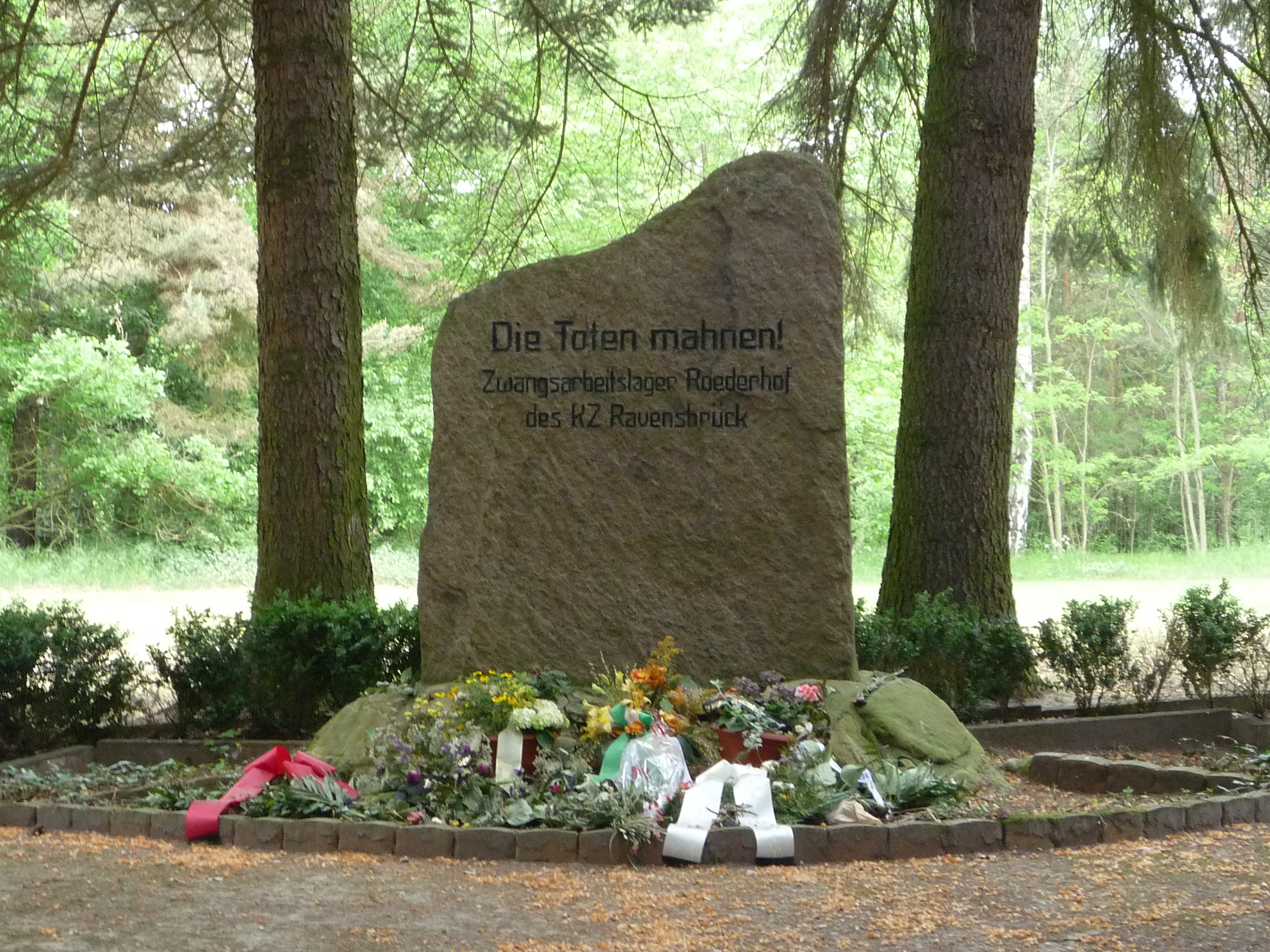 Roederhof Memorial, Bad Belzig, Brandenburg, Germany